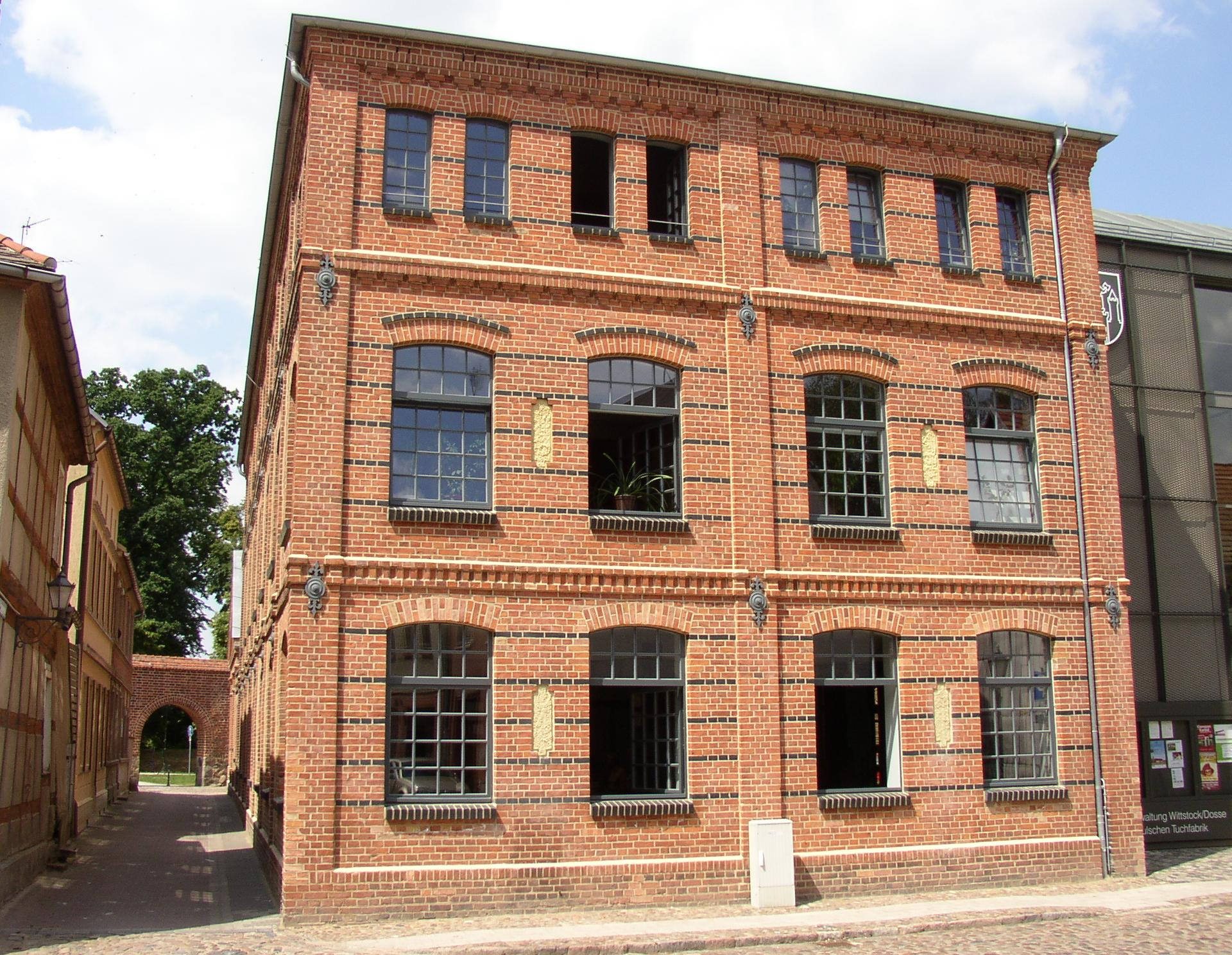 Municipality in Wittstock in Brandenburg, Germany